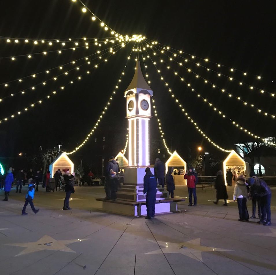 Christmas market in Mariupol